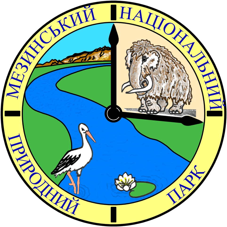 Mezynskyi National Nature Park